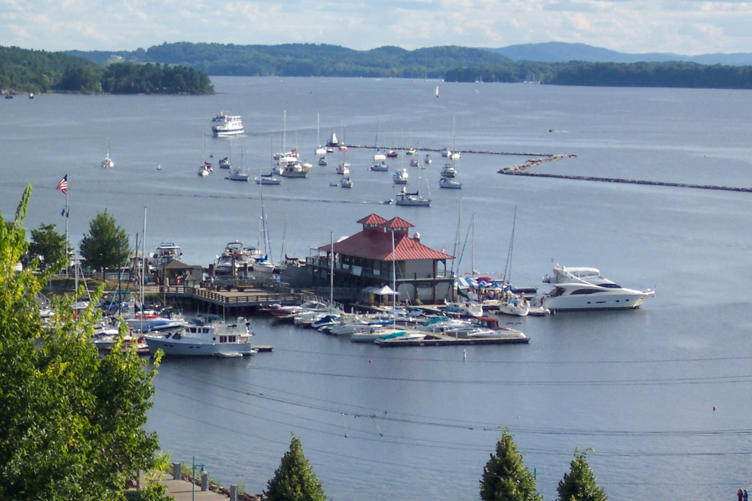 Burlington Breakwater and Boathouse as viewed from Battery Park